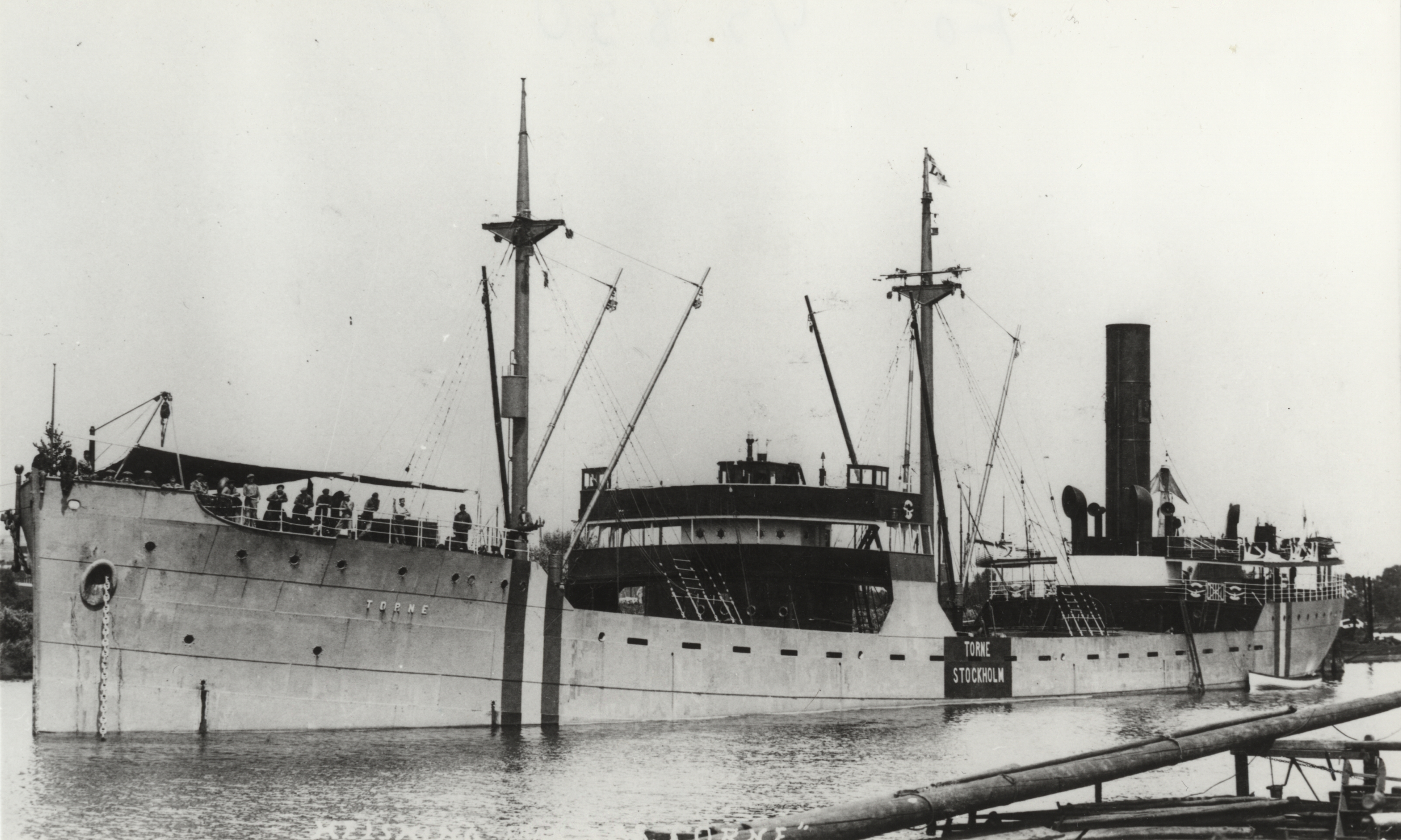 Steamship Torne av Stockholm in 1915.